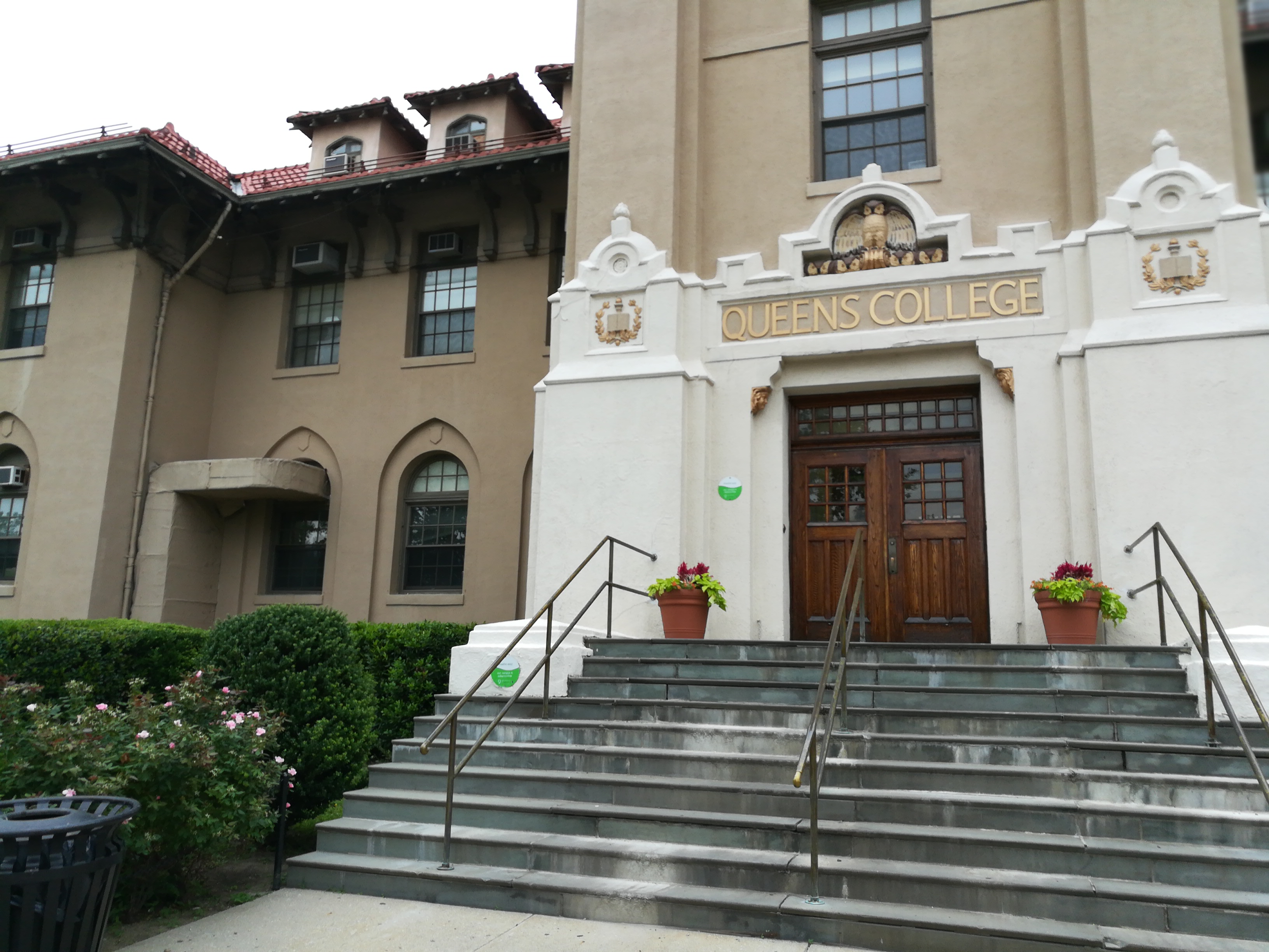 These are the steps of Jefferson Hall, which was the same building where the New York Parental School was before it closed in 1934.